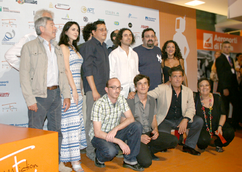 Cast of Boris, Italian TV series